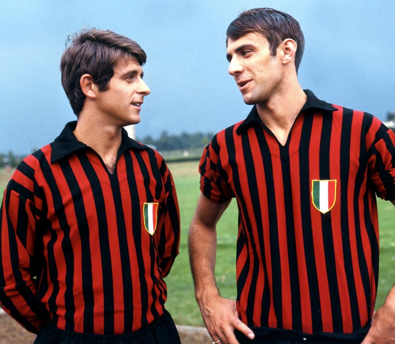 From left to right: Italian footballers Gianni Rivera and Pierino Prati with A.C. Milan in the 1968–69 season.